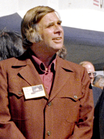 Crop of Gene Roddenberry from File:The Shuttle Enterprise - GPN-2000-001363.jpg